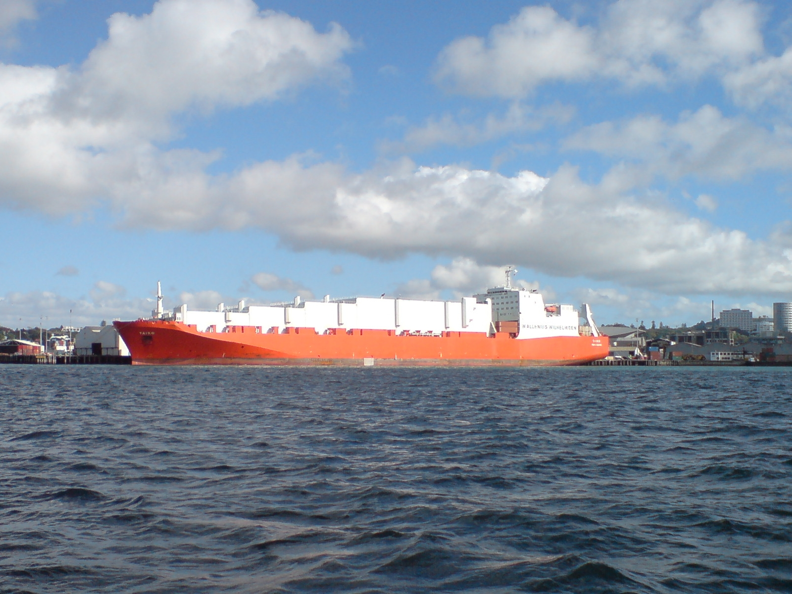 The Taiko (Japanese for 'Drum') of the Norwegian shipping line Wallenius Wilhelmsen Logistics. Shown here berthed in the Port of Auckland, Auckland, New Zealand, probably having delivered a cargo of vehicle imports. For ship details and history see her category:IMO 8204975